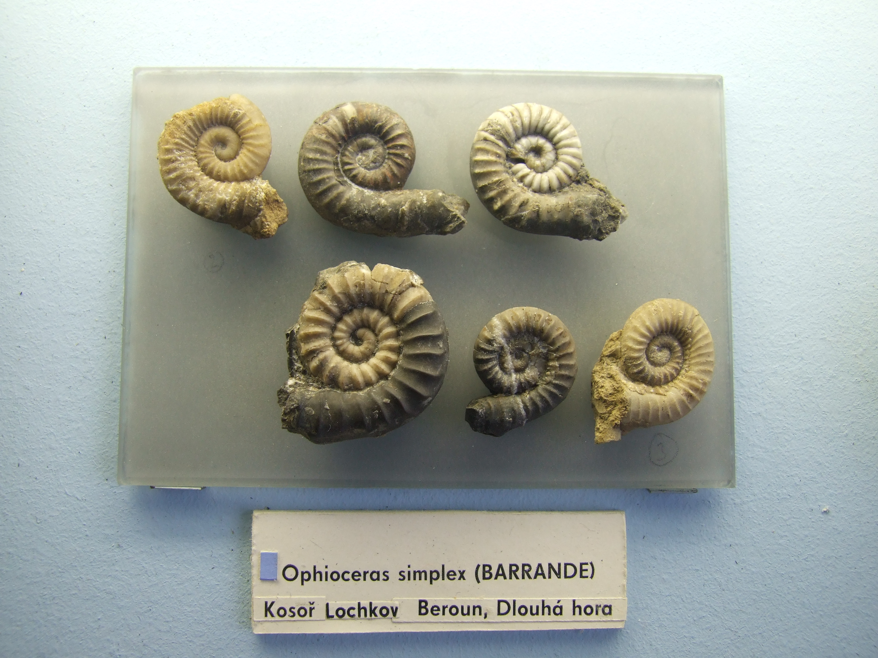 Fossil Ophioceras simplex specimens at the Palaeontological exhibition, National Museum in Prague